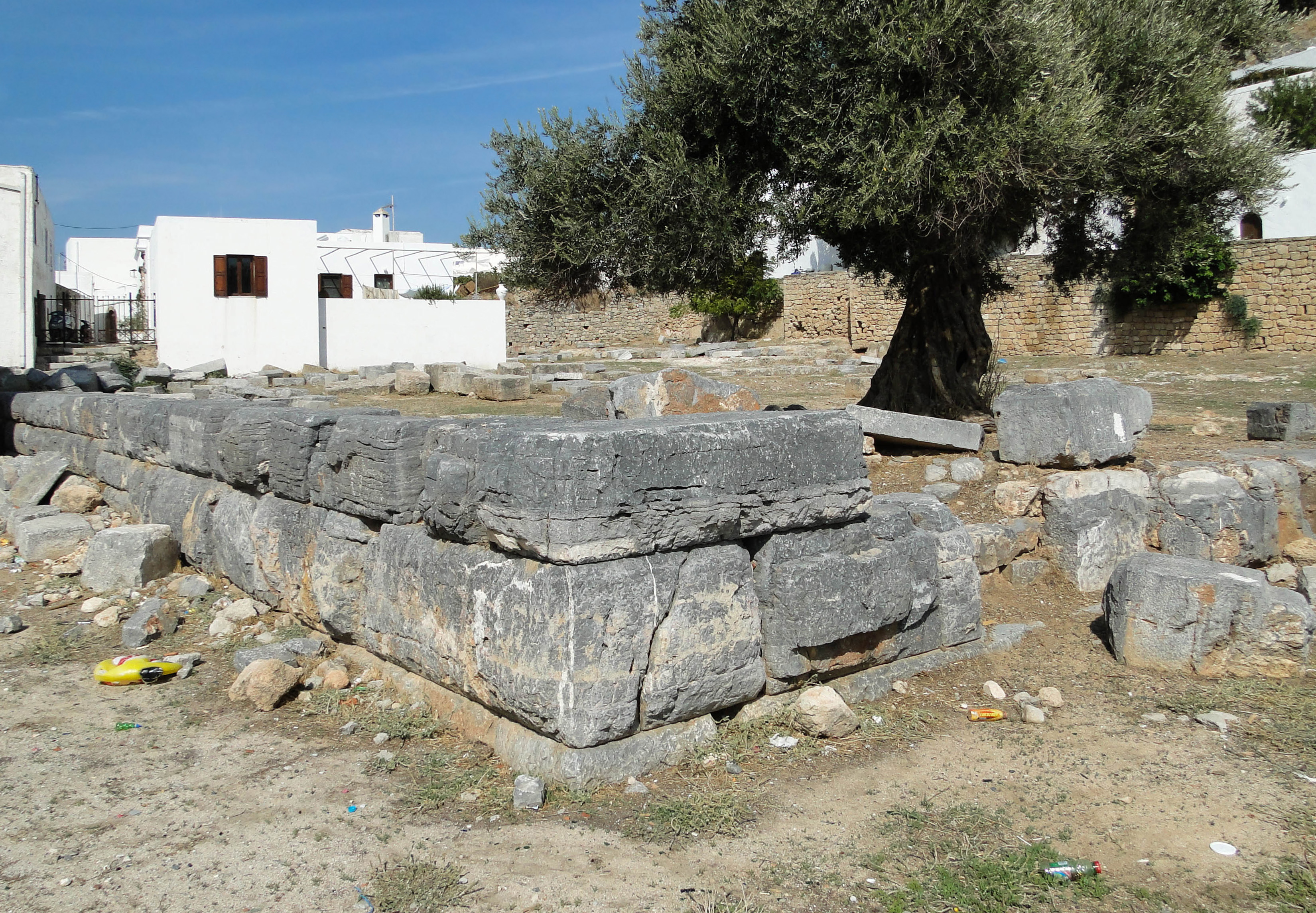 Ruins of the Tetrastoon of Lindos, Rhodes, Greece